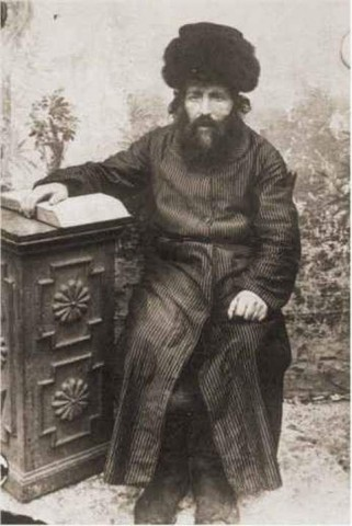 Yisrol (Yisrolik) Szyldewer, a Hasid and baldarshn (preacher), in Staszow, eastern Poland. Early 20-th century, prewar photo.